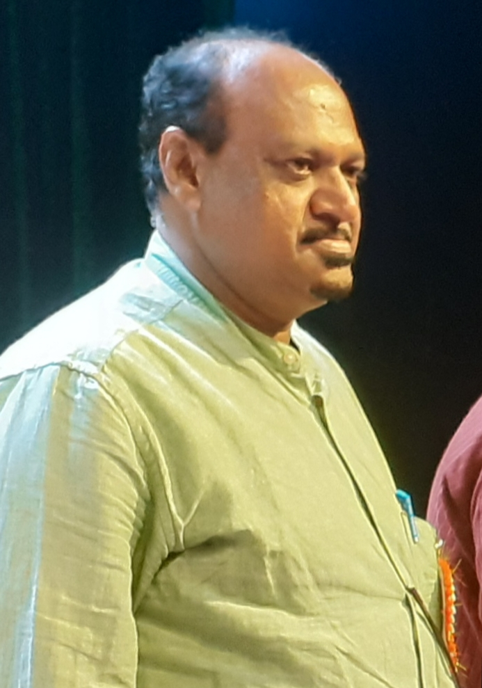 Prof. Javed Pasha at Chandrapur 2019